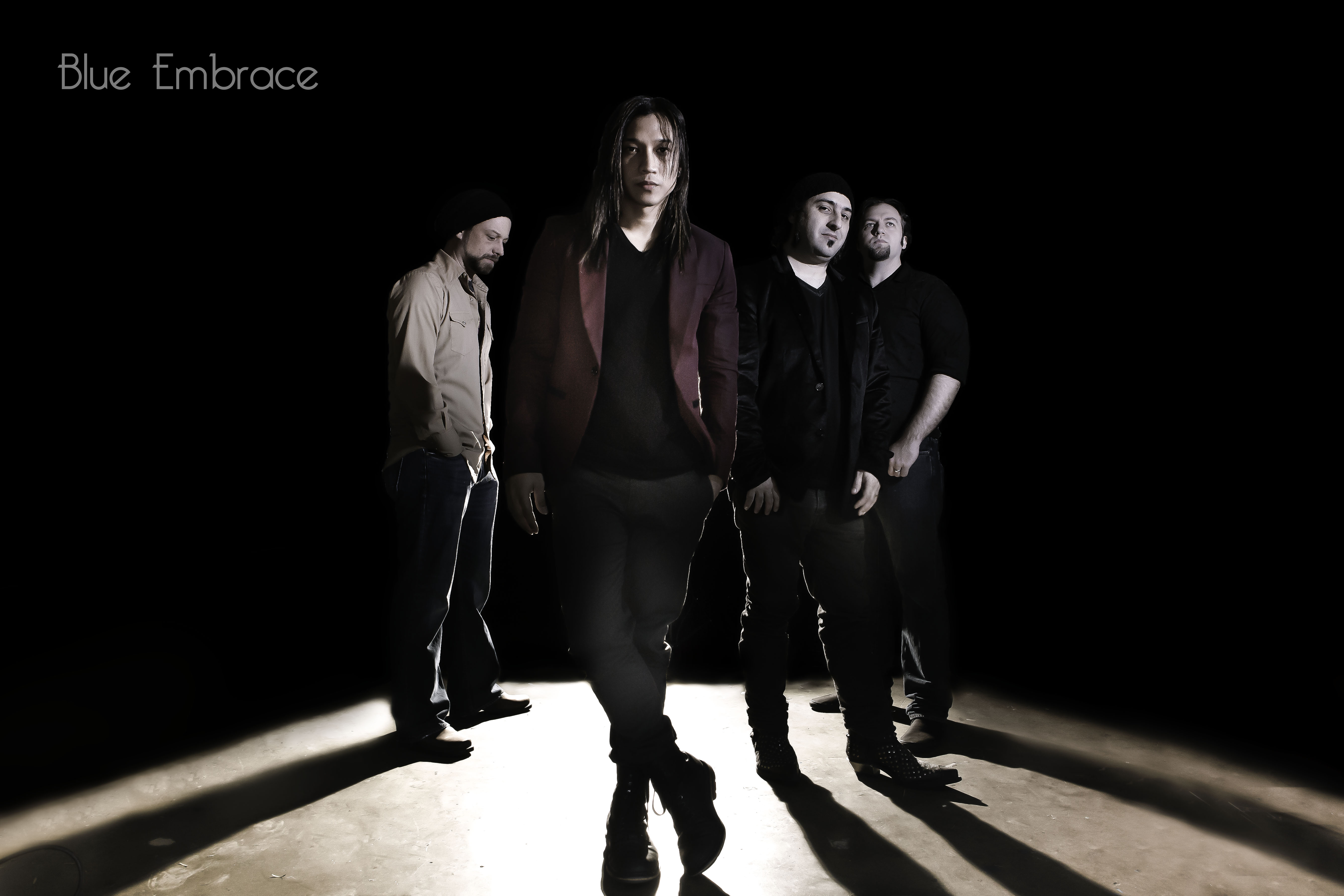 Blue Embrace 2017 lineup